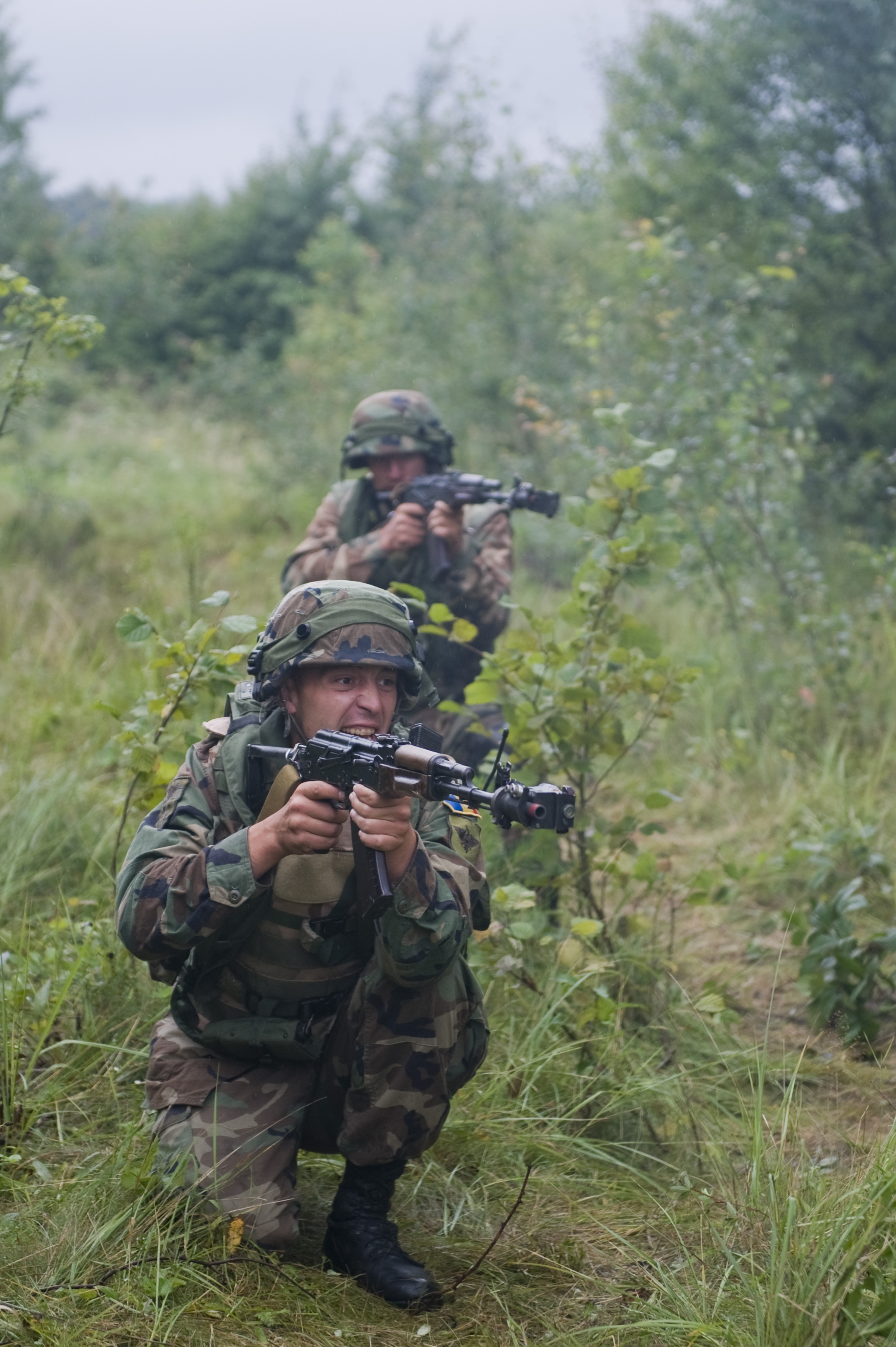 Yavoriv, Ukraine (July 27, 2011)-- Moldovan Soldiers train with Patnership for Peace Nations during Rapid Trident 2011. Rapid Trident 2011 is a multi-national airborne operation and field training exercise (FTX) in support of Ukraine’s Annual Program to achieve interoperability with NATO. (U.S. Army Image by Staff Sgt. Brendan Stephens/Released)